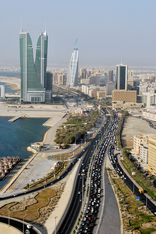 Road, towers and sea in Manama, Bahrain.